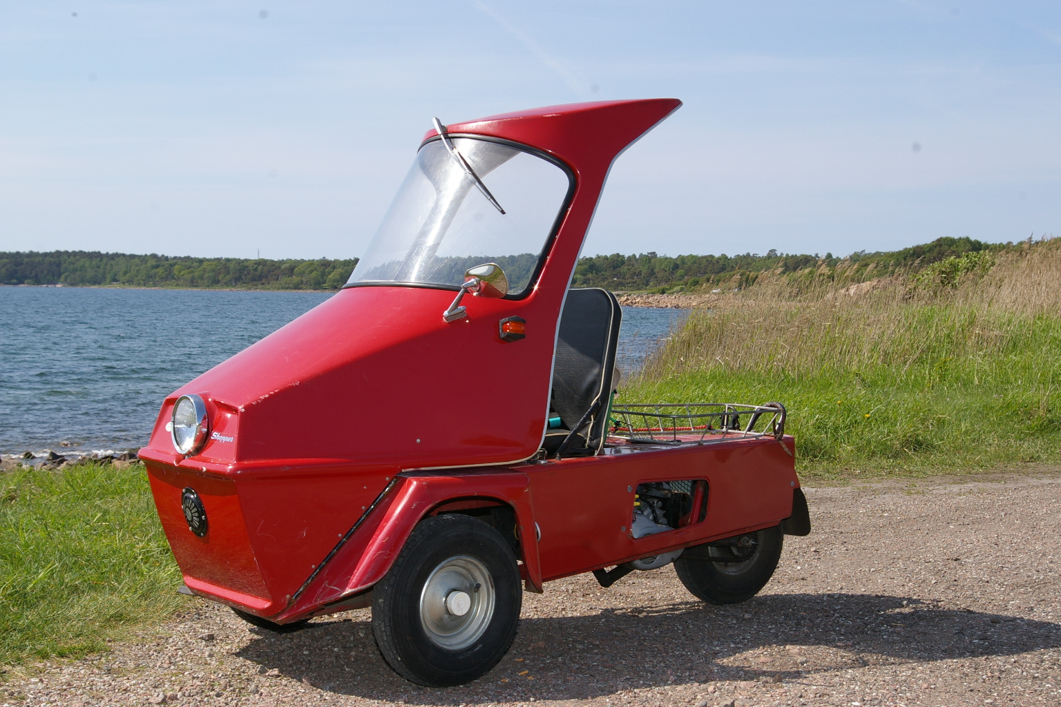 Norsjö Shopper 3-wheel moped, red